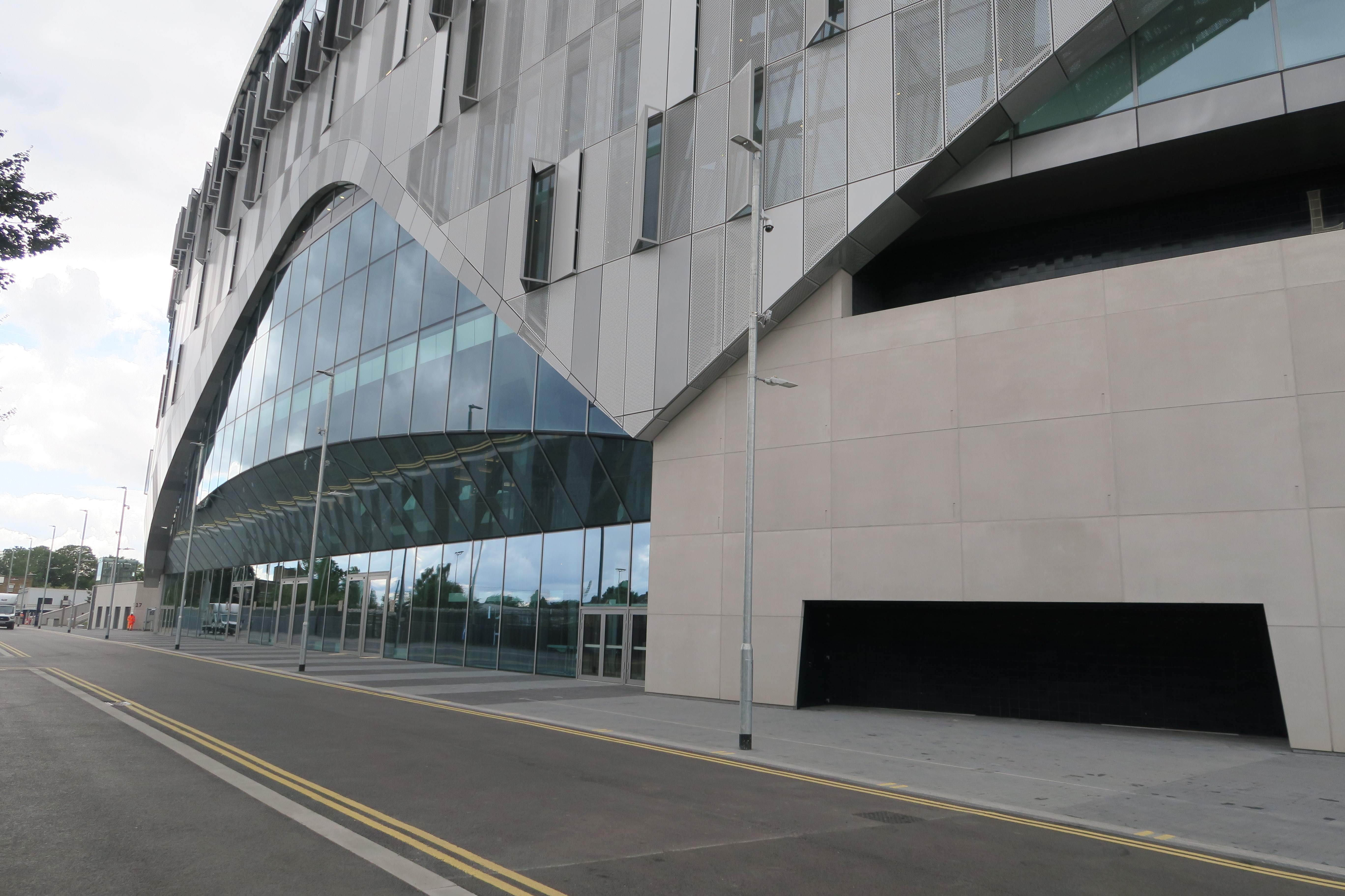 The East entrance of Tottenham Hotspur Stadium on Worcester Avenue, June 2019